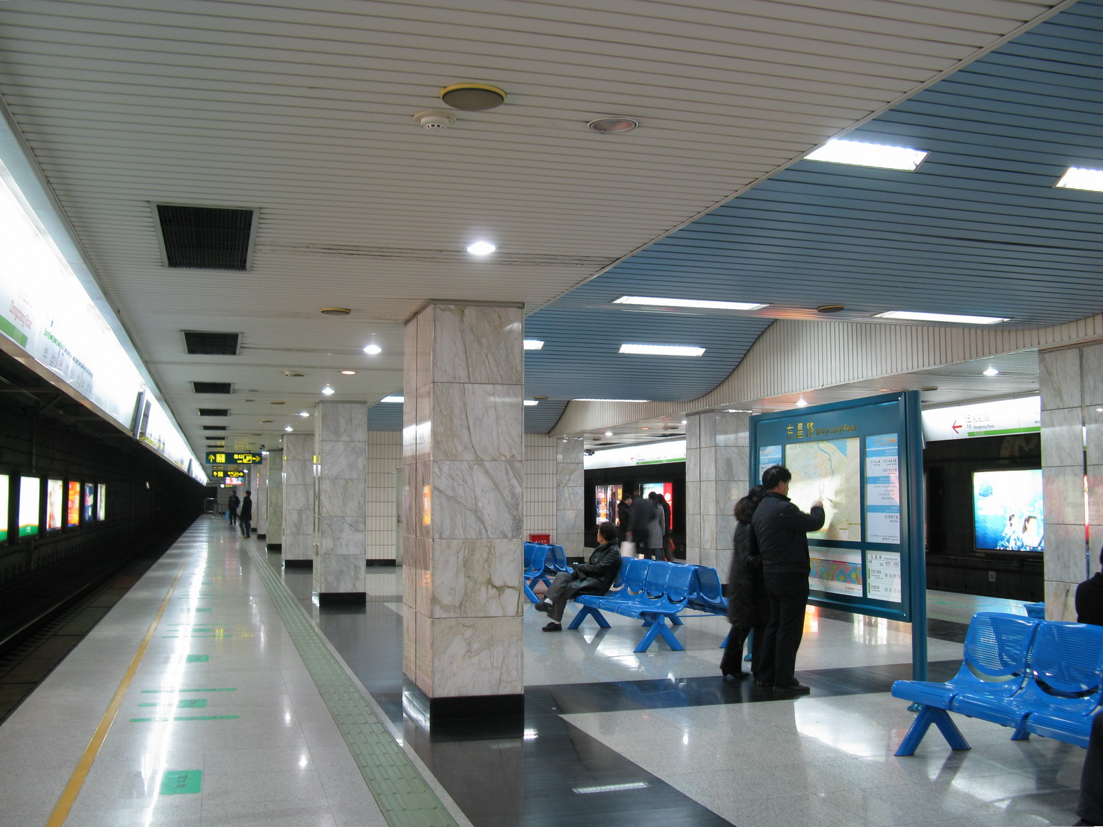 东昌路站 2号线月台 Line 2 Platform of Dongchang Road Station